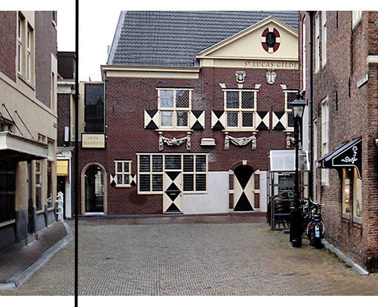 Present situation (2009) of the site of the 1661 St. Lucas Guildhouse in Delft where now a replica of this Guildhouse is to be seen. The black line indicates the left-hand boundary of the building plot.